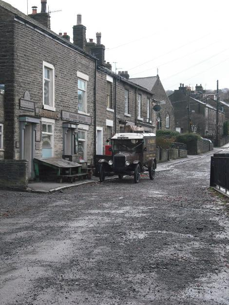 December 2012, in Hayfield, England filming The Village starring John Simm & Maxine Peake airing in spring 2013.